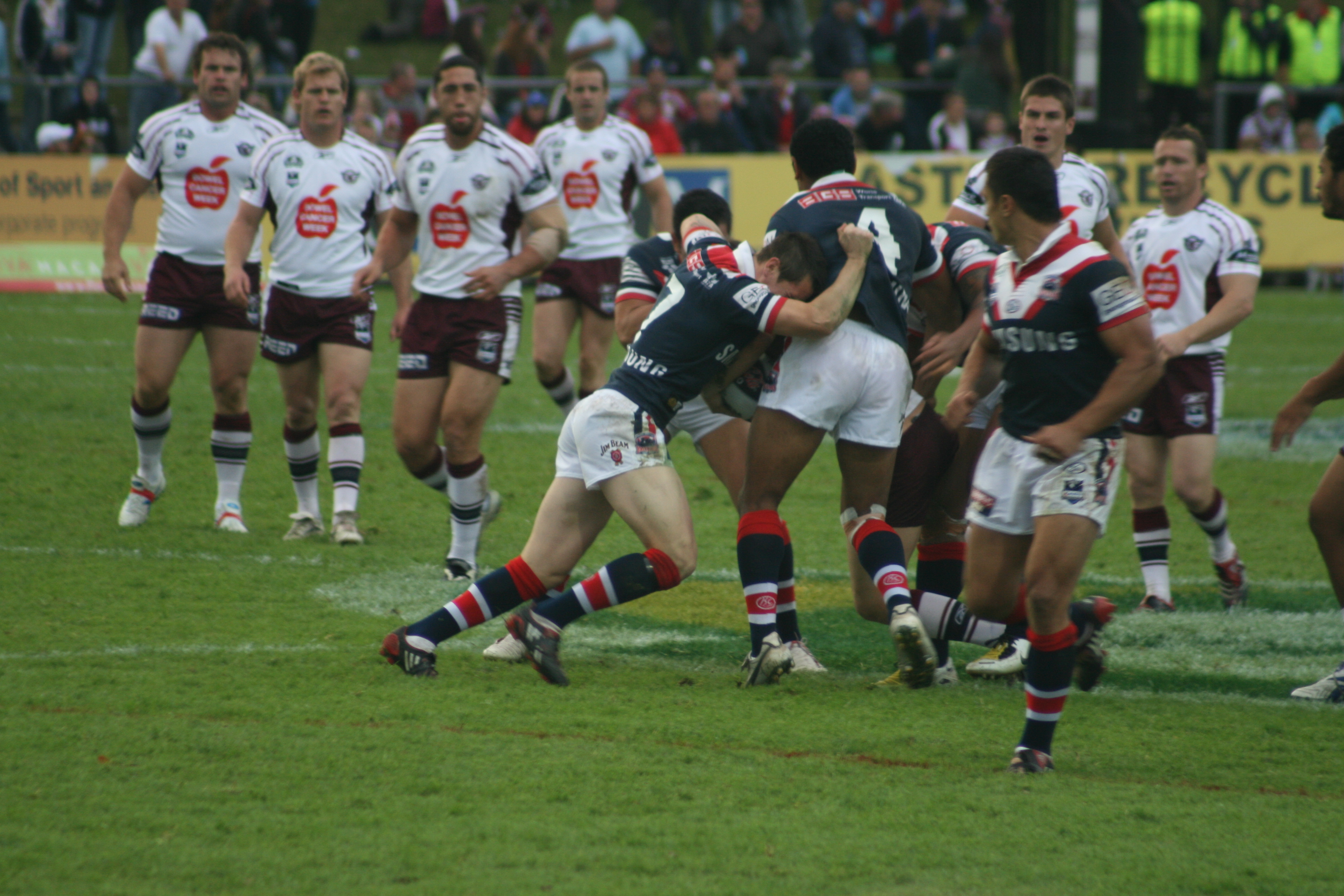 picture of a tackle in rugby league - manly sea eagles vs roosters in june 08, brookie oval, sydney, australia. Eagles won 42-0 (hooray!)